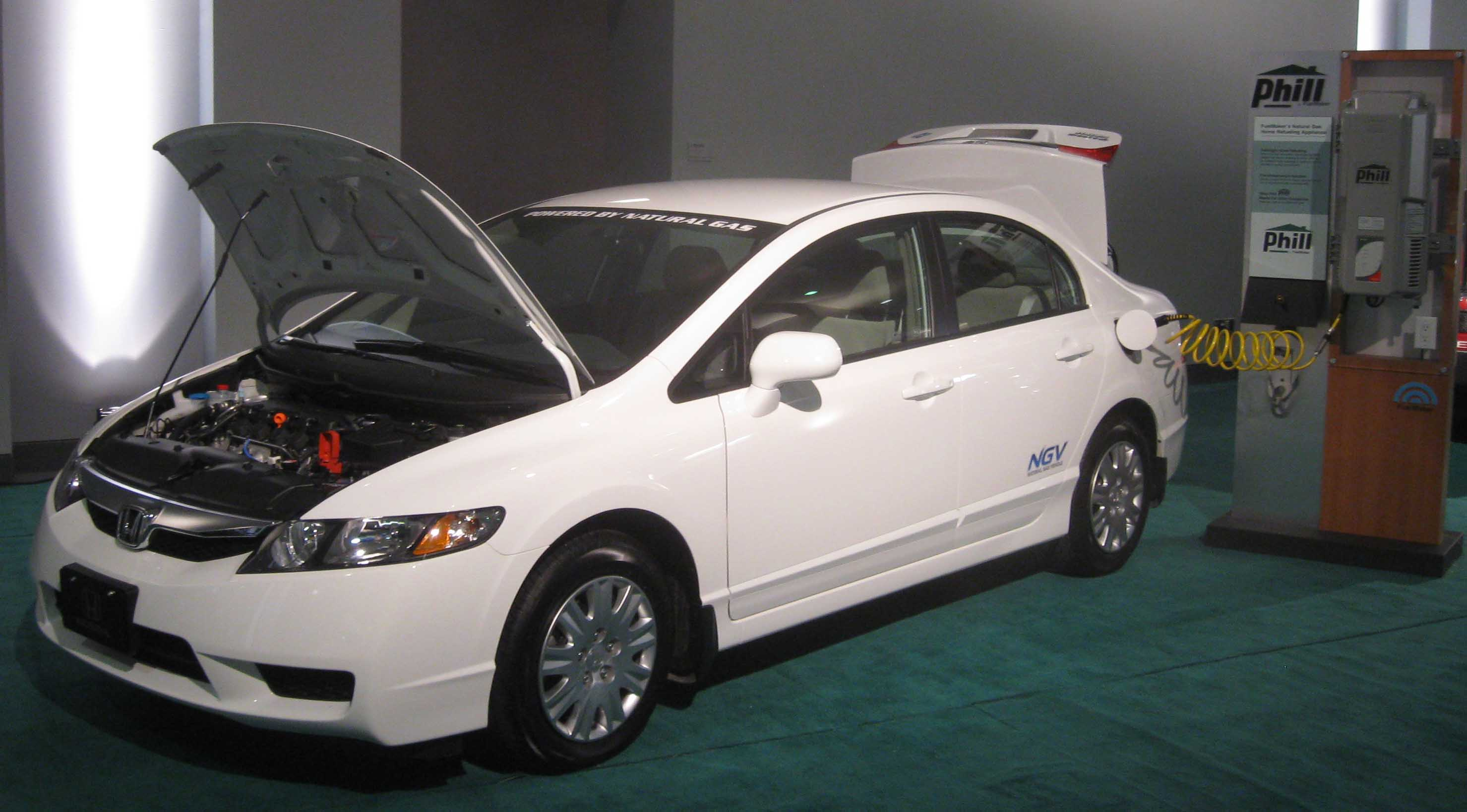 2009 Honda Civic NGV with "Phil" refueler photographed at the 2009 Washington DC Auto Show.